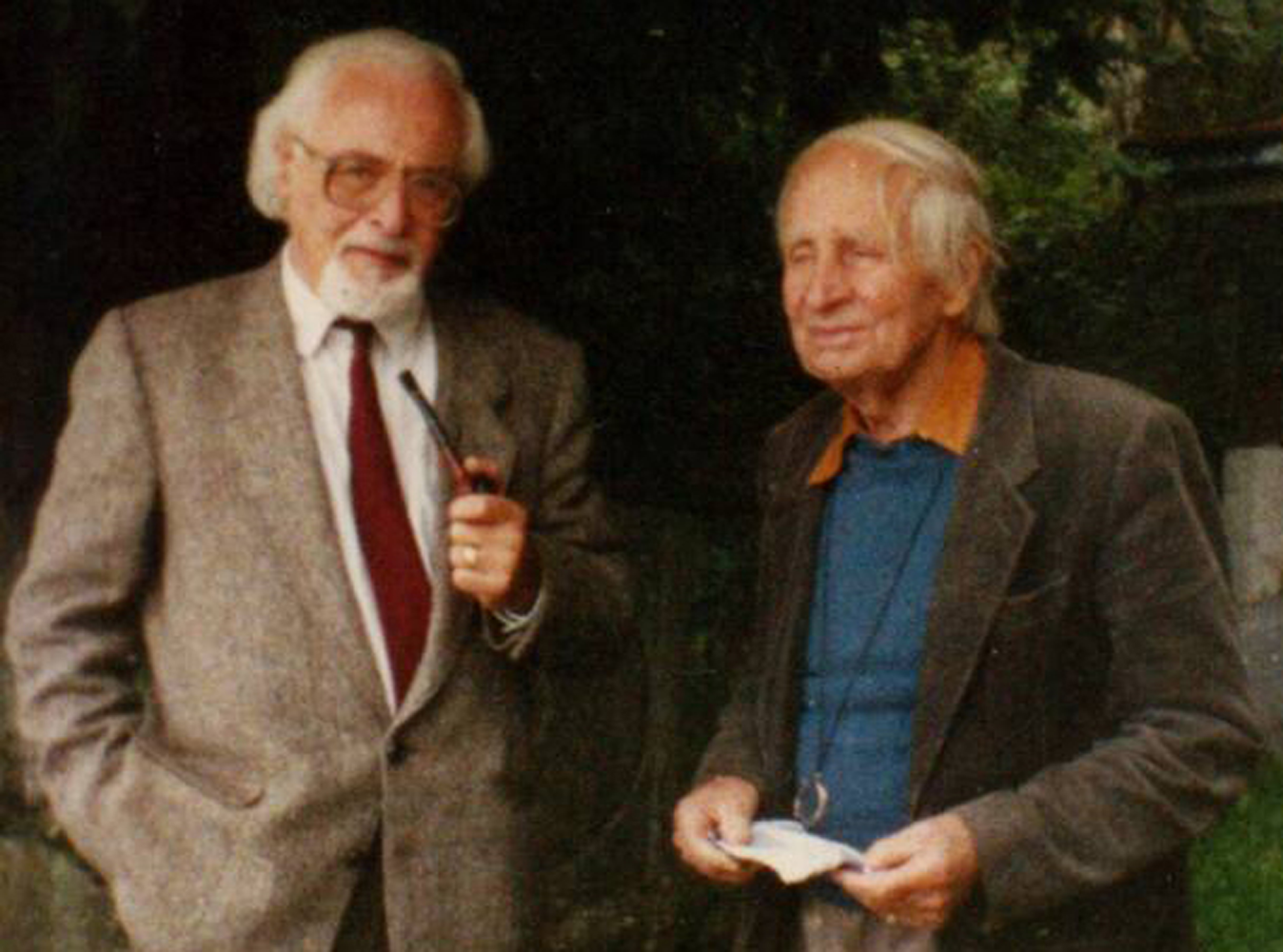 Van Dijk with Sir Laurens van Der Post, CBE visiting together at Bollingen Tower, the home of Carl Jung on the shore of Lake Zürich in 1994.